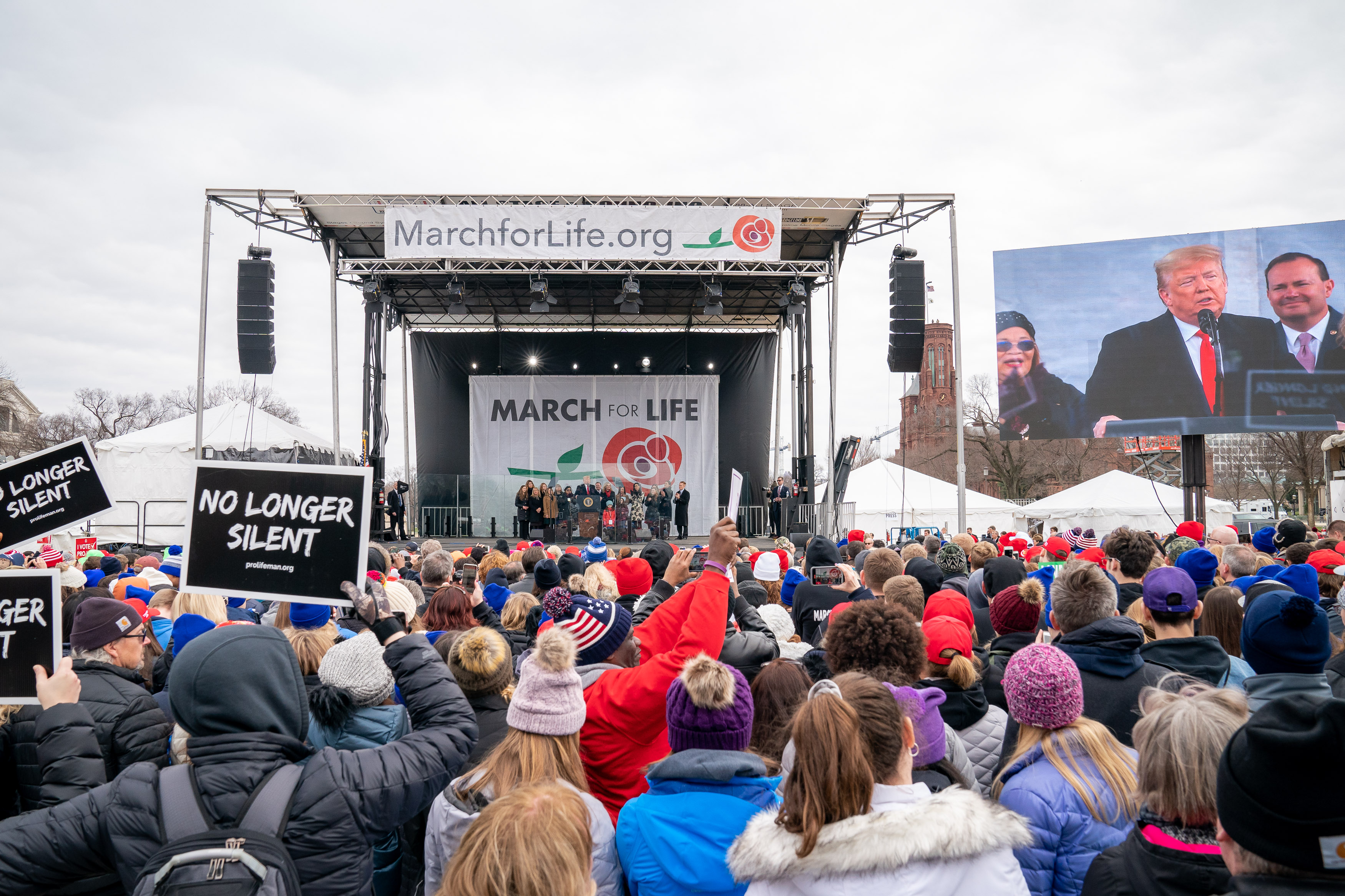 President Donald J. Trump delivers remarks at the 47th Annual March for Life gathering Friday, Jan. 24, 2020, at the National Mall in Washington, D.C. (Official White House Photo by Tia Dufour)